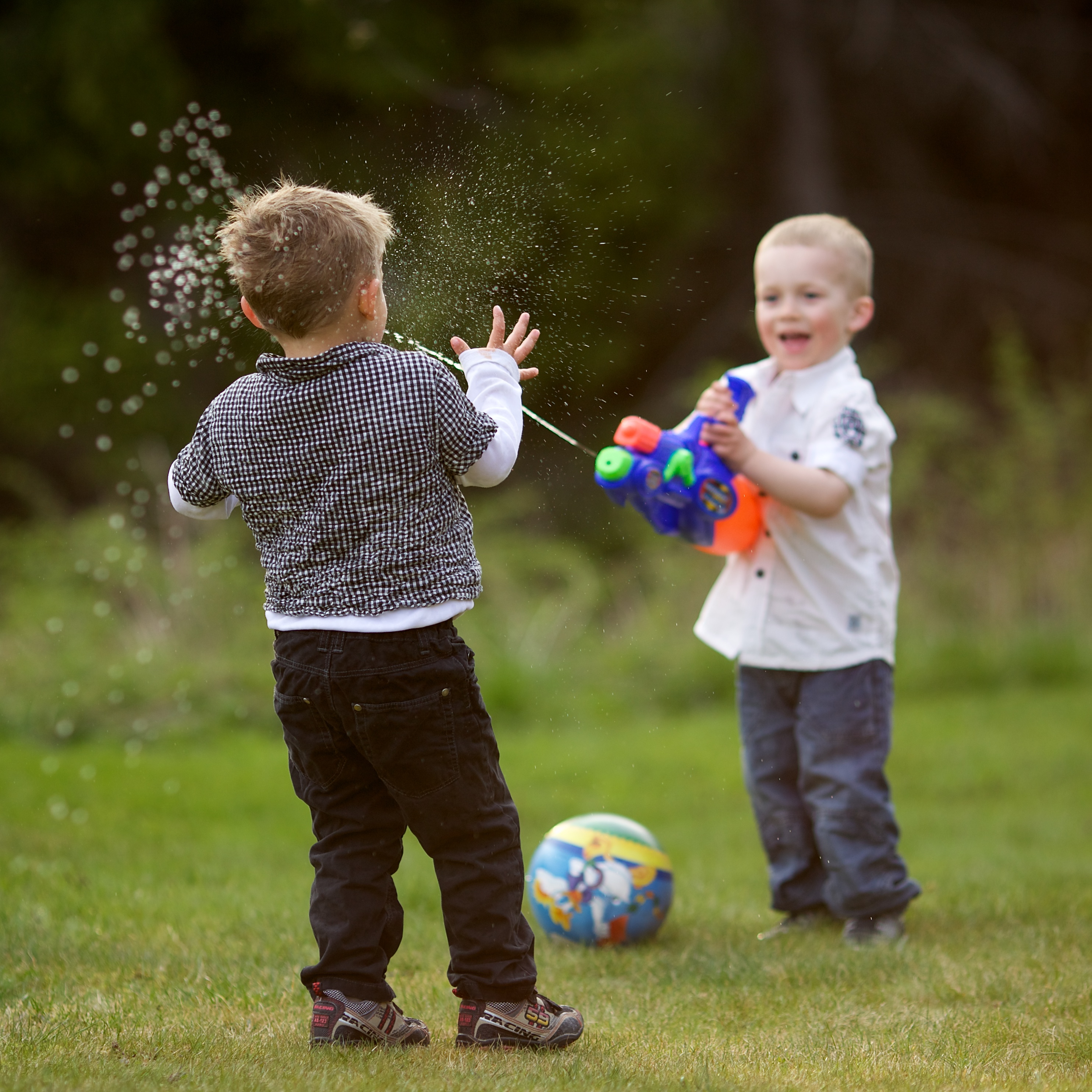 Direct hit